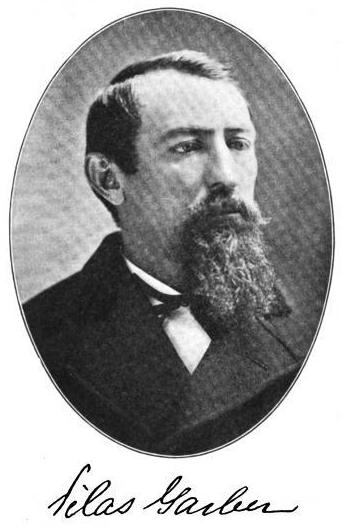 Photo of Silas Garber, third governor of Nebraska (1875-79)